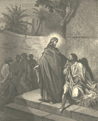 Christ exorcises a mute, by Gustave Doré, 1865